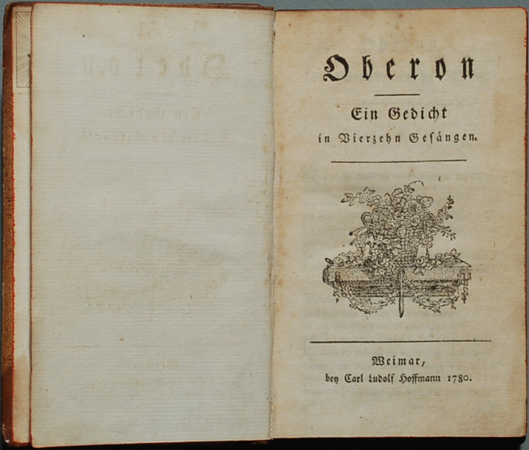 Title page of the first edition (without the author’s name).